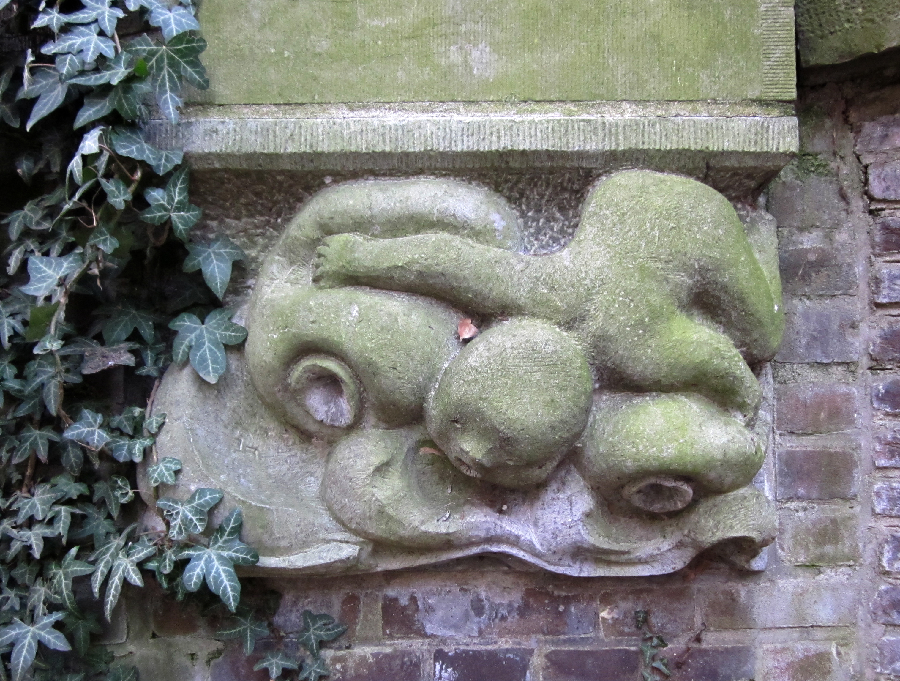 Streetlight corbel "Aiolus" made by Anton Geerlings in ±1978. Placed at the Nieuwegracht 125bis in Utrecht.